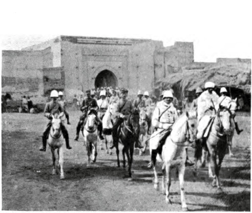 Entry of French colonel Charles Mangin in Marrakesh, 9 September 1912. Photograph from p. 17 of C.J.A. Cornet (1914) A la conquête du Maroc Sud avec la colonne Mangin, 1912-1913. Paris: Plon-Nourit